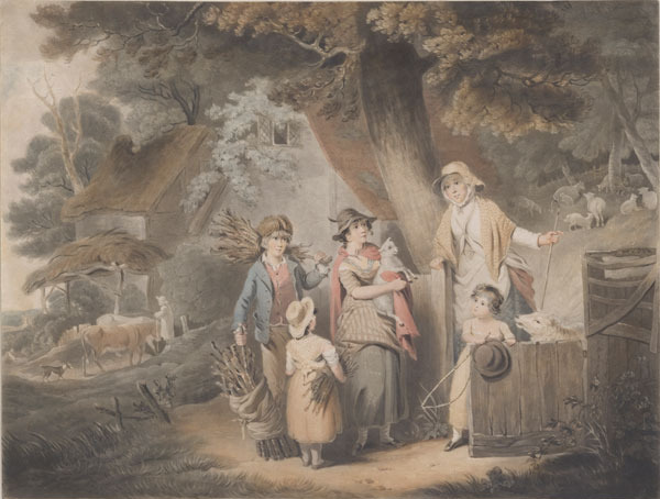 THE PEASANT'S INTEGRITY, or Lost Lamb Restored